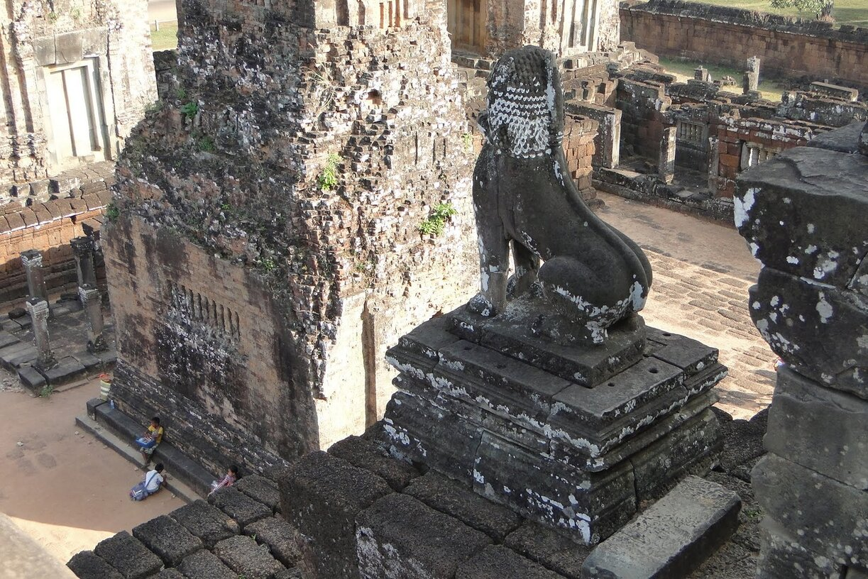 Prey Rap